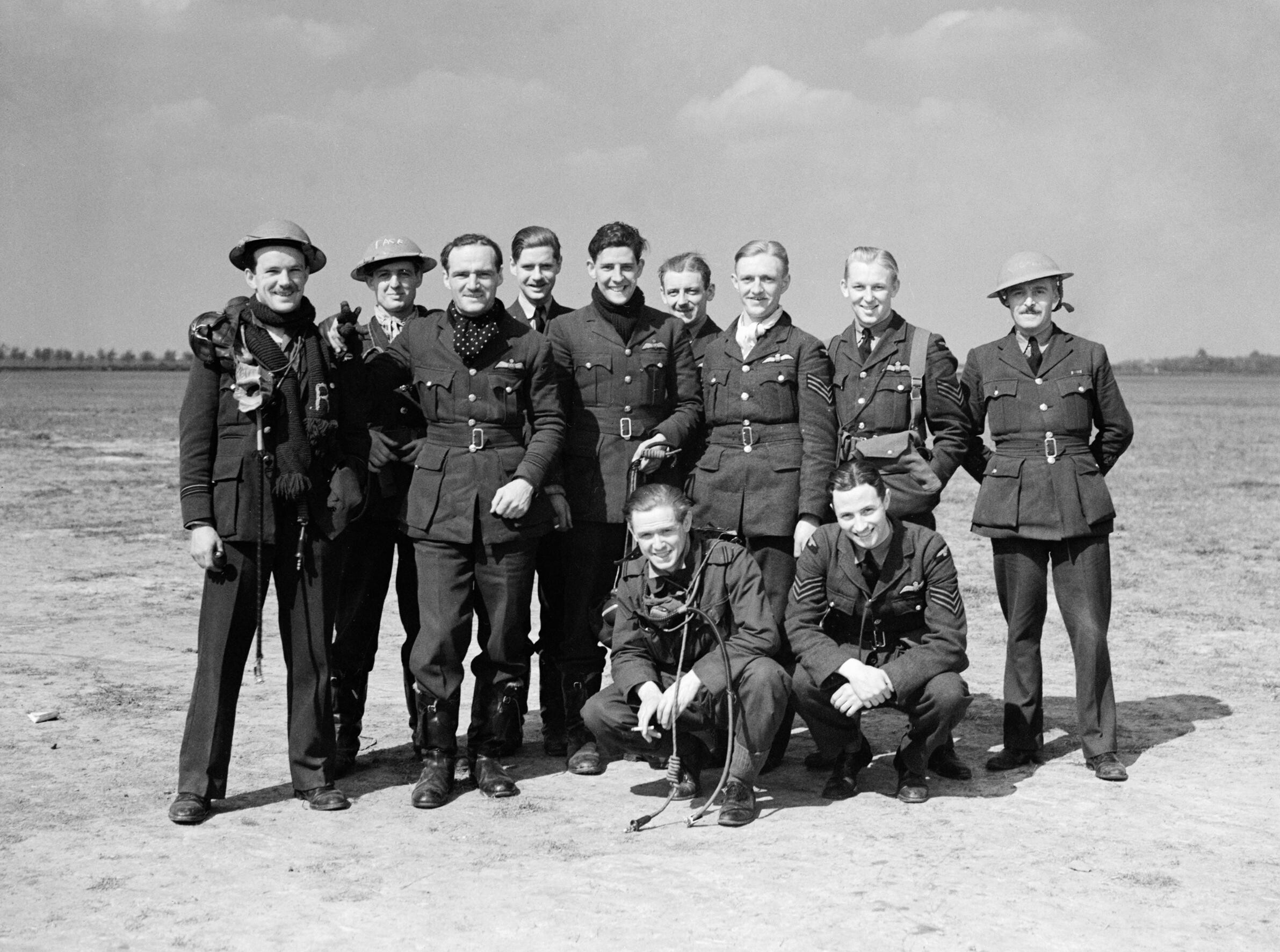 Royal Air Force- France, 1939-1940. Pilots of No. 85 Squadron RAF pause for a photograph between sorties at Lille-Seclin, at 9am on the first day of the German invasion of France. They had been intercepting German formations since 4.15am and were to continue to do so until 9pm that evening, claiming a total of seventeen enemy aircraft destroyed for the loss of four Hawker Hurricanes. Back row, (left to right); Flight Lieutenant J R M Boothby Flying Officer T G Pace Squadron Leader J O W "Doggie" Oliver (Commanding Officer) Pilot Officer J H Ashton Pilot Officer J W Lecky. Killed in car accident 18/05/1940, age 20. Flying Officer S P Stephenson Sergeant G 'Sammy' Allard. Killed in accidental aircraft crash 13/03/1941, age 28. Sergeant L A Crozier Warrant Officer Newton Front, (left to right); Flying Officer K H Blair Sergeant J McG Little. Missing in action 19/05/1940, age 22.